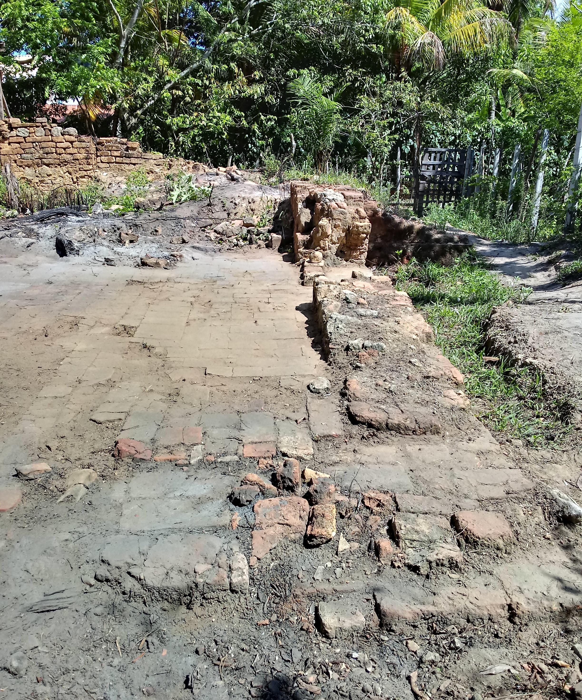 Ruins of the Casa-Grande Engenho Jaguaribe